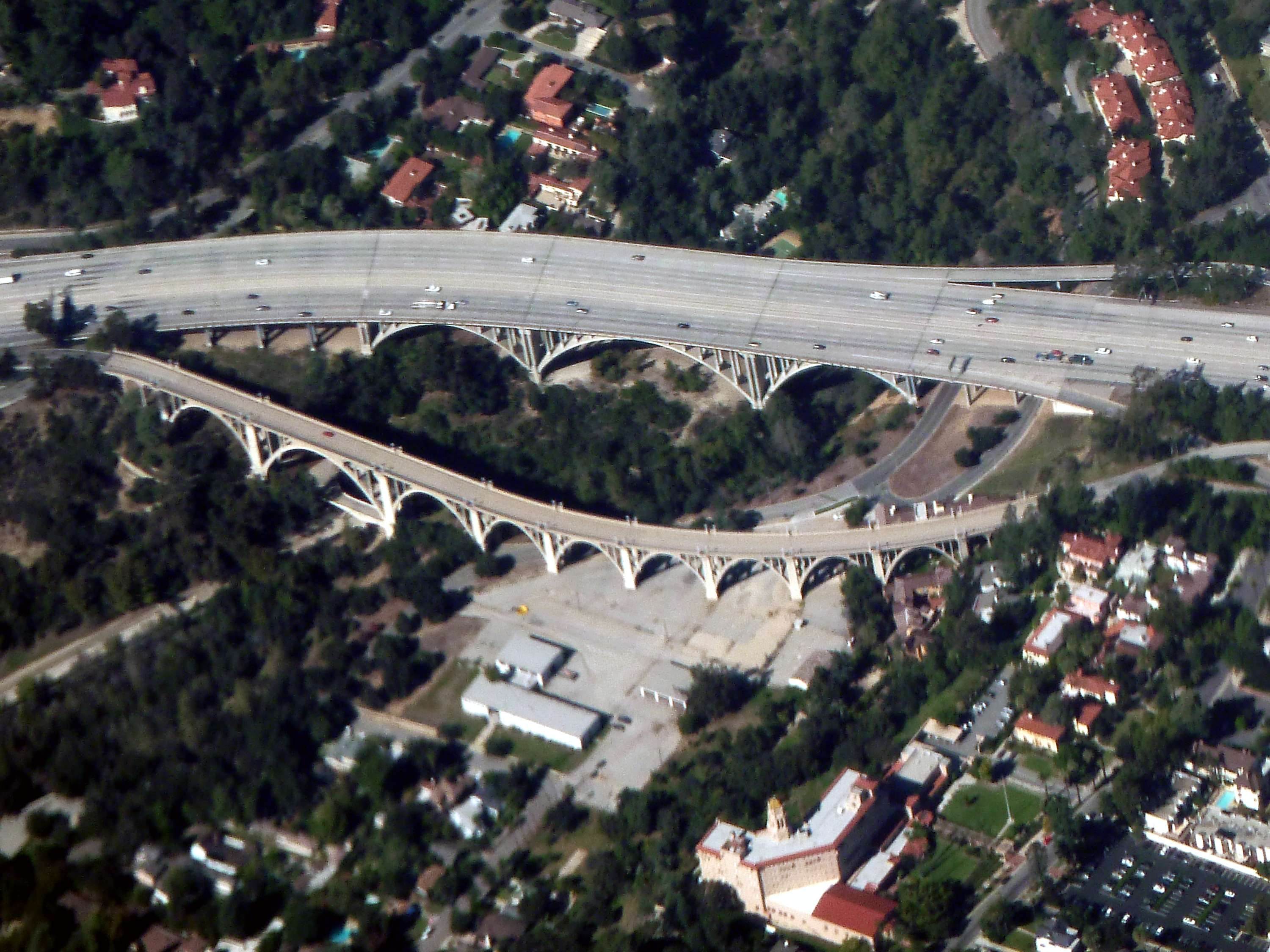 Aerial view of the Colorado Street Bridge (bottom), with the Arroyo Seco Bridge of State Route 134 (above). Crossing the Arroyo Seco (canyon and creek). In Pasadena, Southern California.